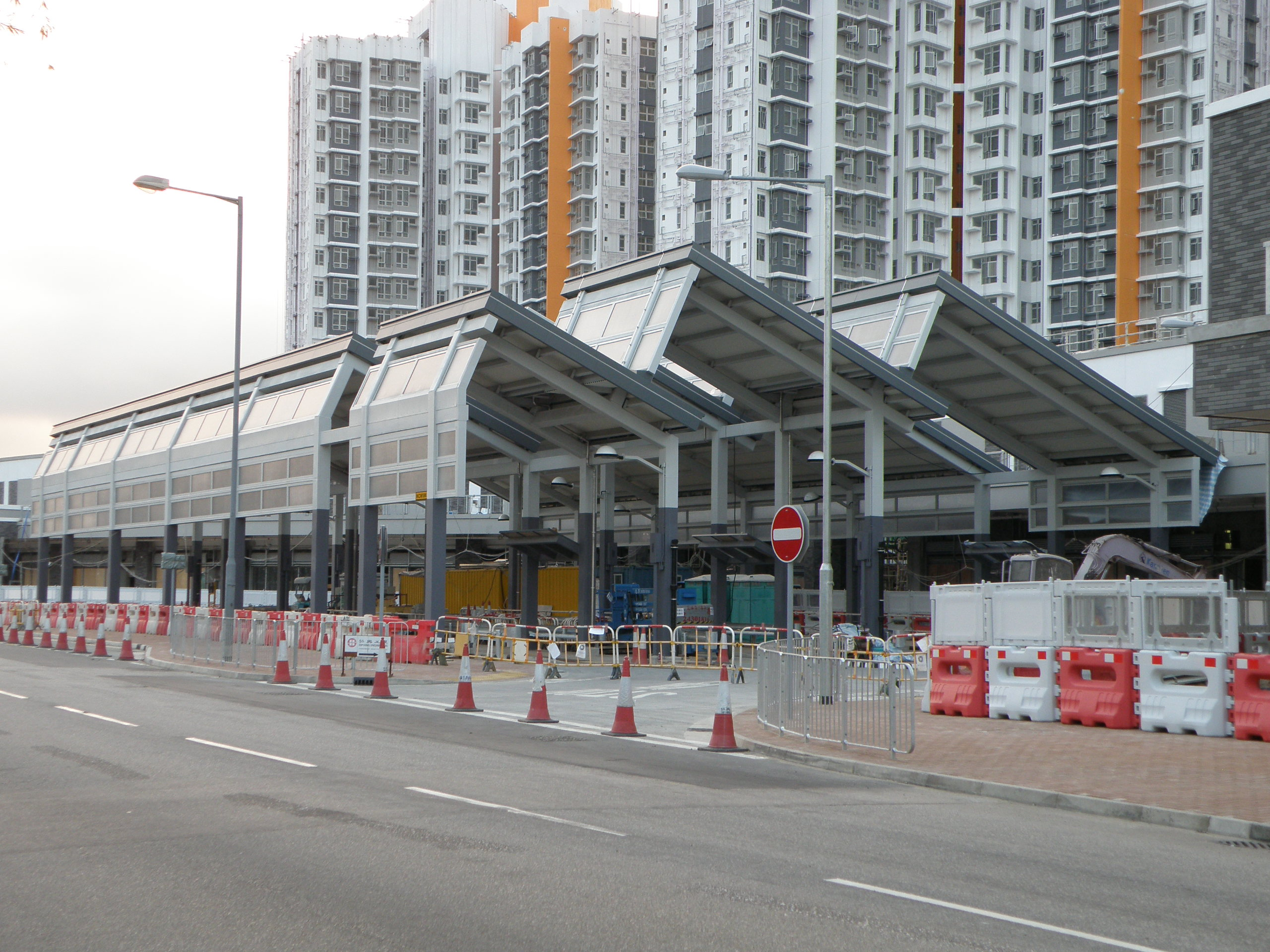 Hung Fuk Bus Terminus in Hung Shui Kiu, Hong Kong.